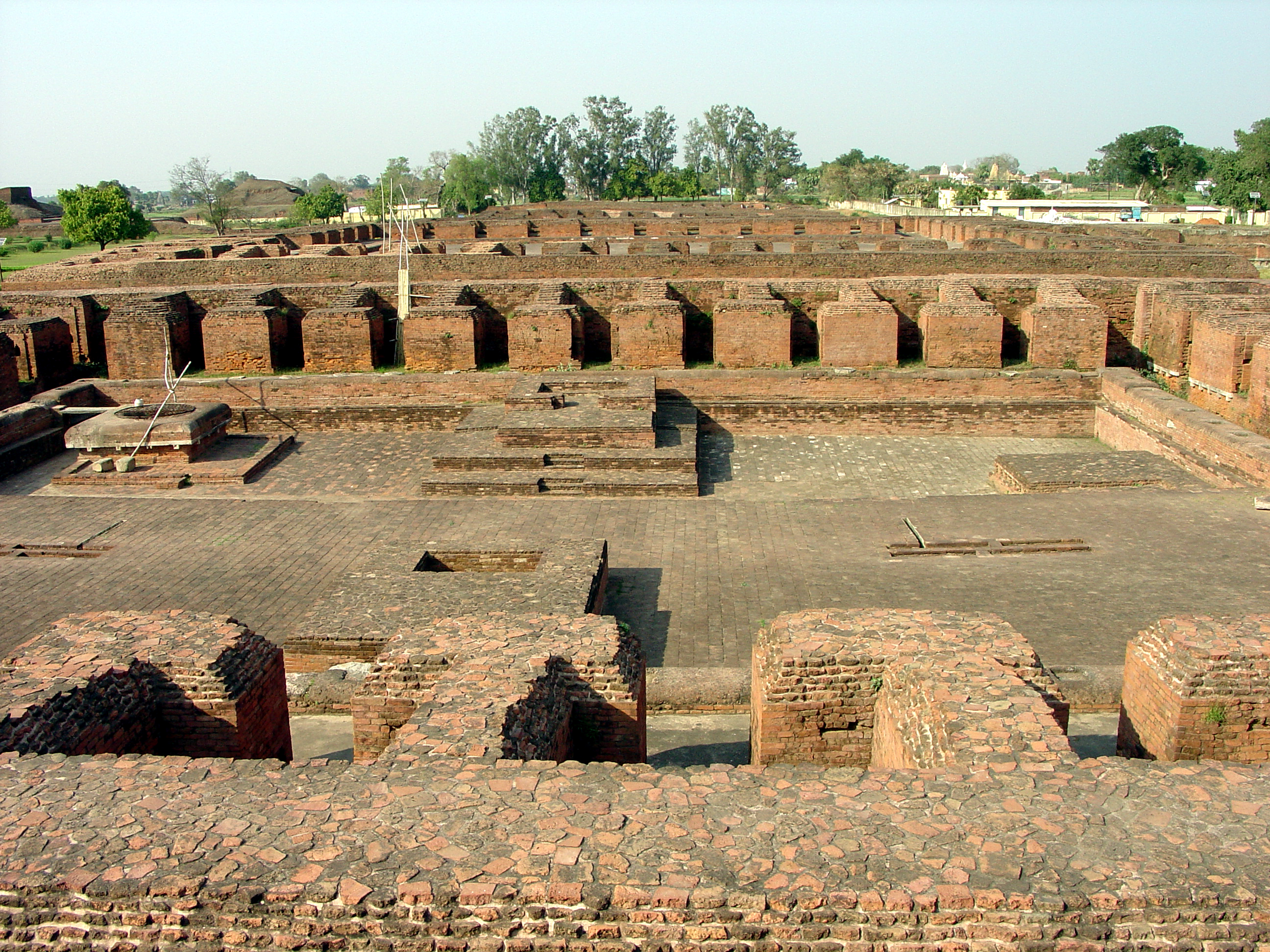 Monastery 4. Nalanda, 7th century Looking north one sees the sunken court of the monastery, surrounded by monks' cells. In the northwest corner is a well. A stepped platform occupies the center of the north edge of the court.